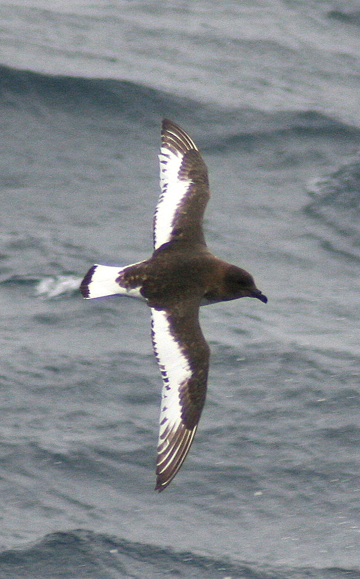 Antarctic Petrel (Thalassoica antarctica) off of the Western Antarctic Peninsula